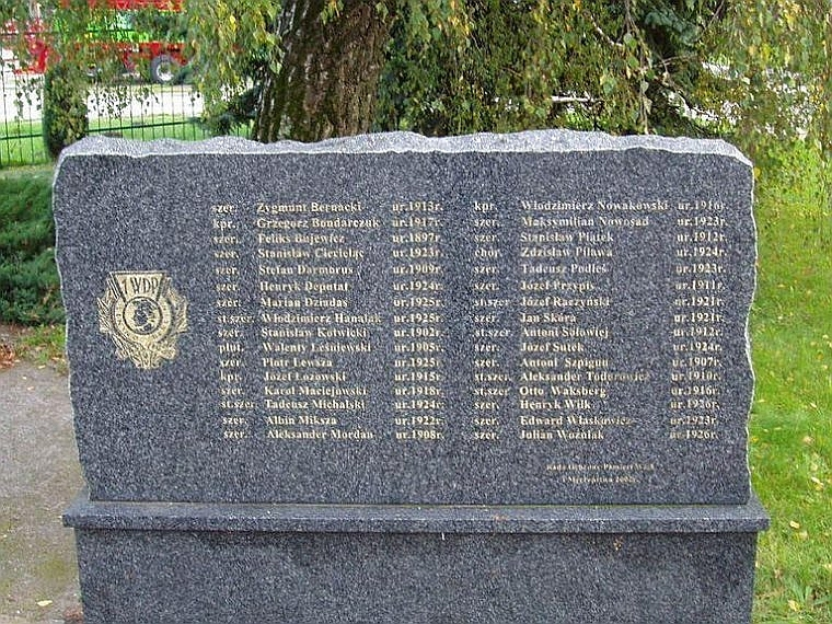 Podgaje village, Poland. Monument to February 2, 1945 32 wounded polish soldiers.